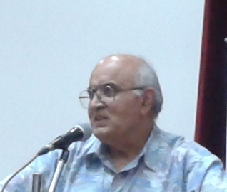 Kanwal Rekhi speaking on Entreprenuralism at IIM Bangalore on 23 Sep 2013